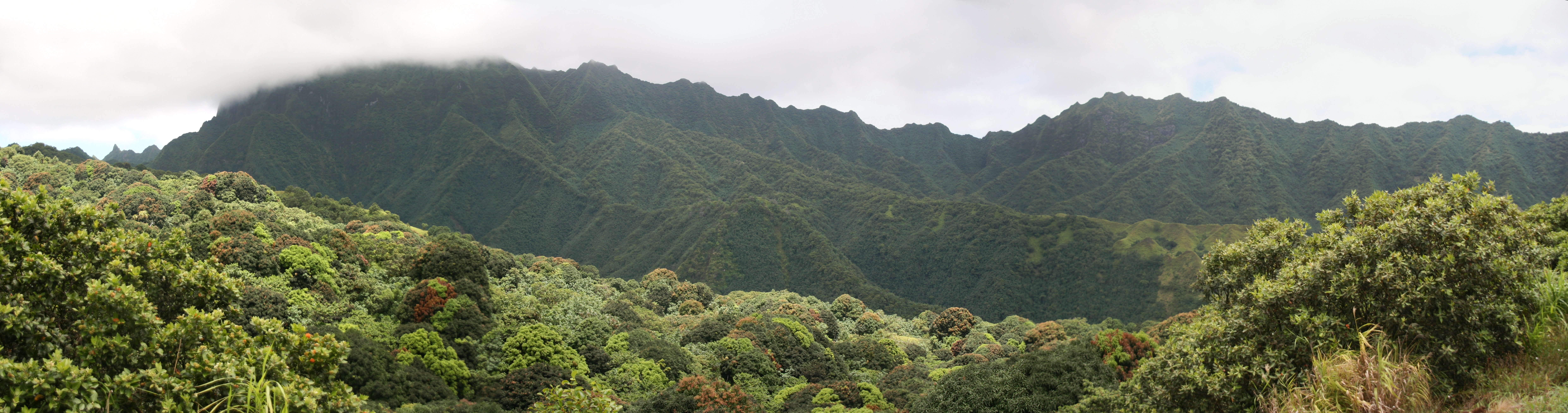 Tropical rainforest in the island of Fatu Iva, Marquesas islands, French Polynesia.